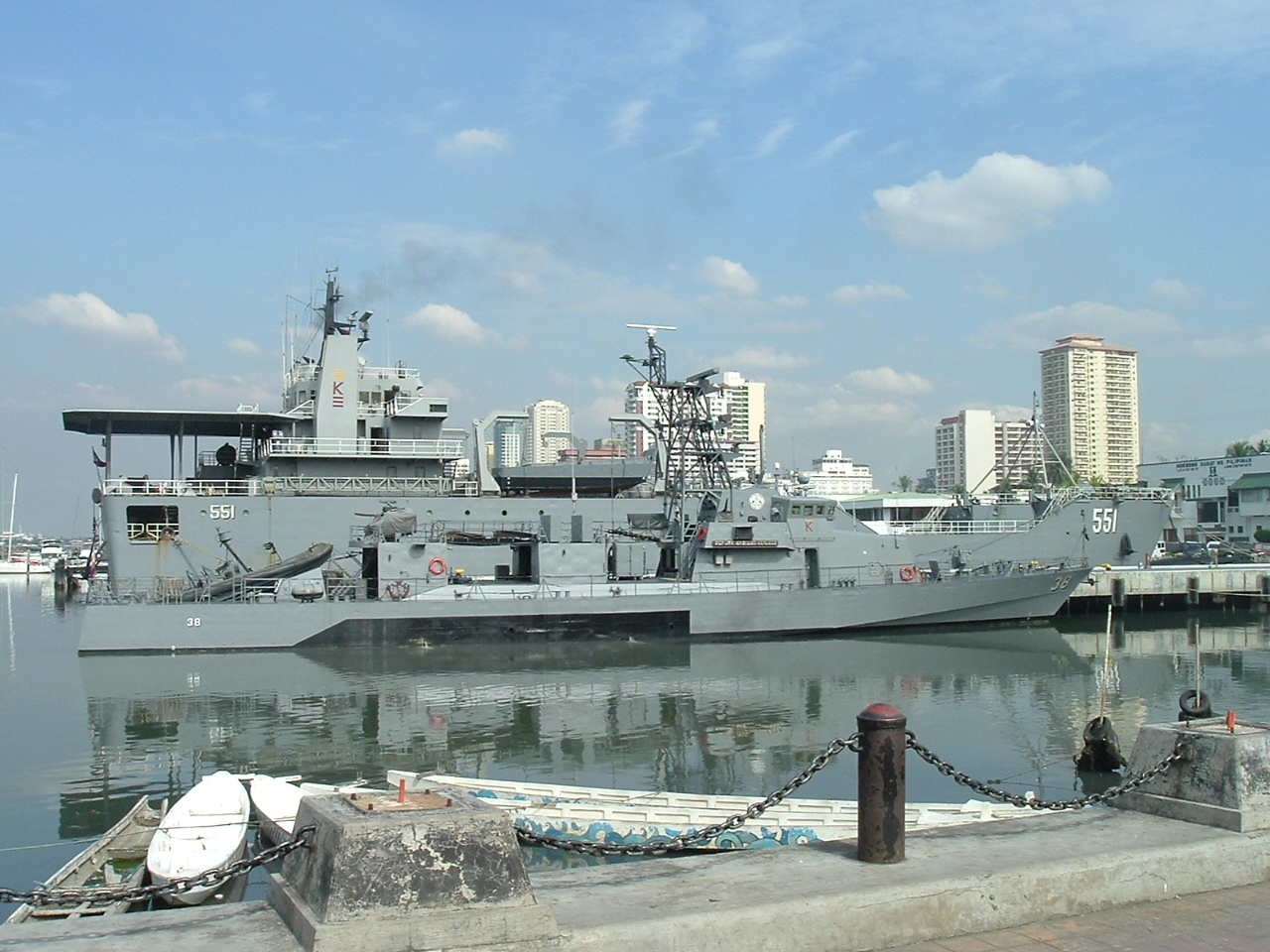 BRP Dagupan City LC-551 with BRP Mariano Alvarez PS-38 at pier of PN HQ on Roxas Blvd., Manila...